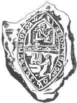 Seal of the comtur of Dünaburg (Daugavpils) castle.